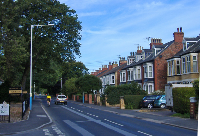 South Street, Cottingham, East Riding of Yorkshire, England.Looking west. Towards the junction at its western end shown at 391905